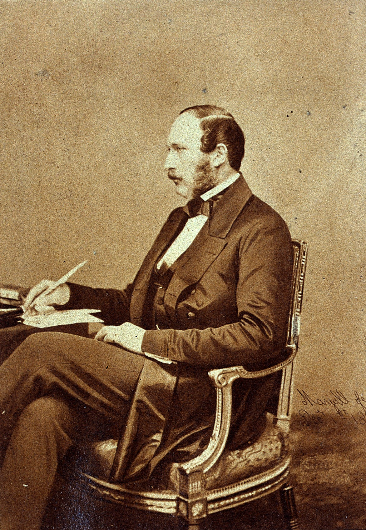 HRH Albert, Prince Consort. Photograph. Iconographic Collections Keywords: portrait photographs